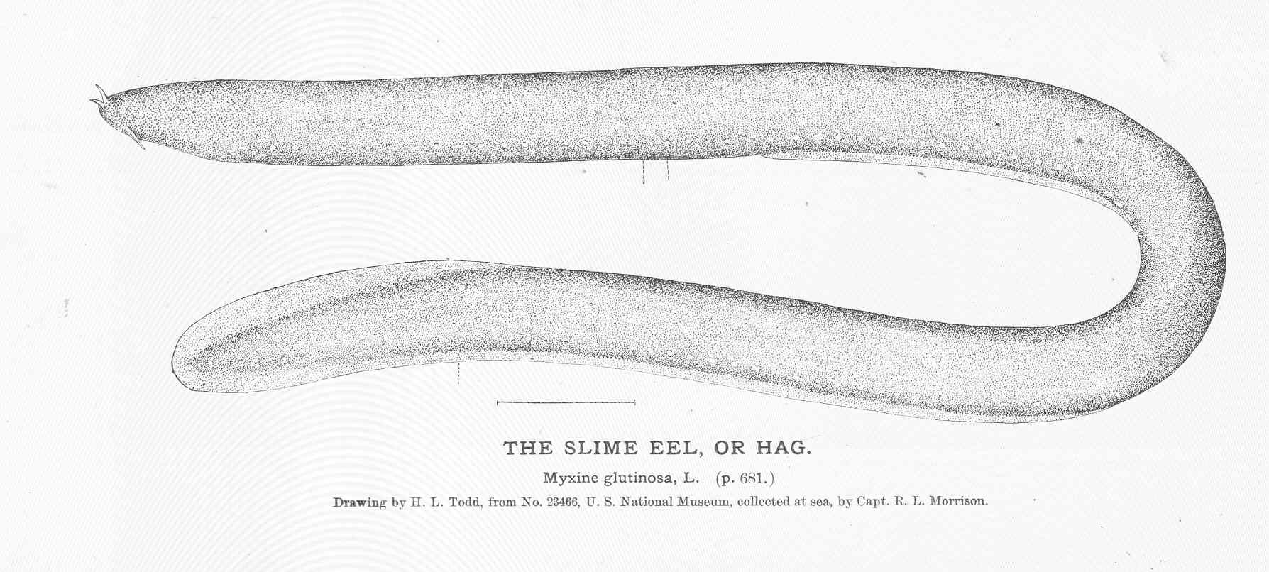 Slime Eel, or Hag Myxine glutinosa, L. Subject: Myxine, Atlantic hagfish Tag: Fish